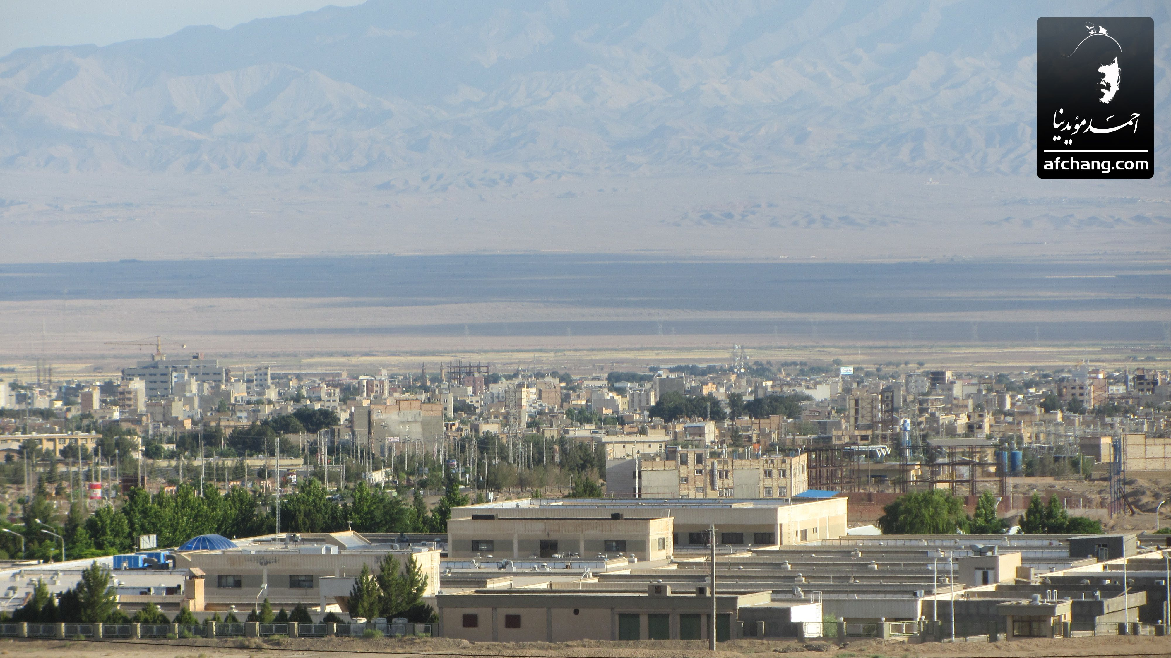 SABZEVAR City